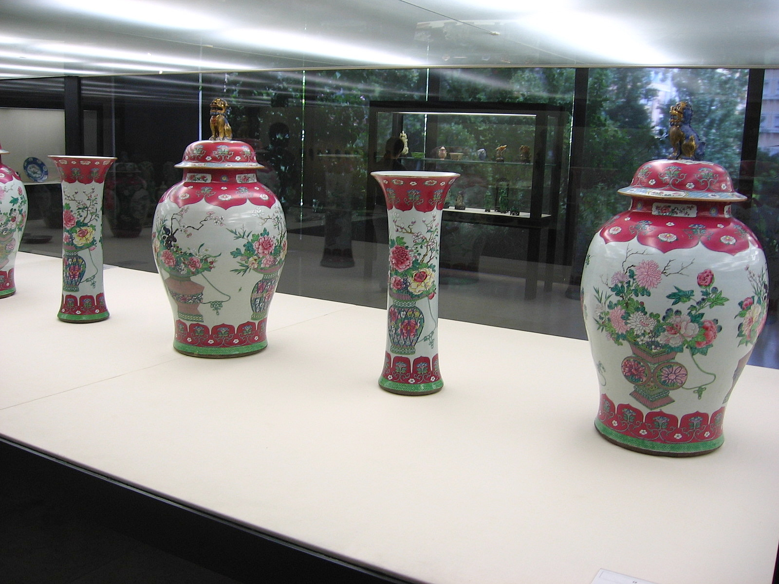 Qing Dynasty vases, in the Museu Calouste Gulbenkian, Lisbon.